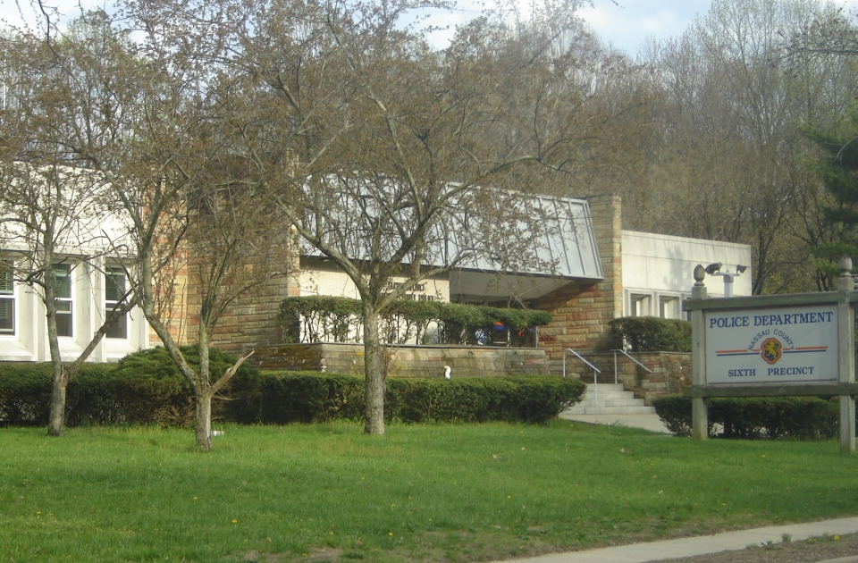 The Sixth Precinct of the Nassau County Police Department on Community Drive in Manhasset.